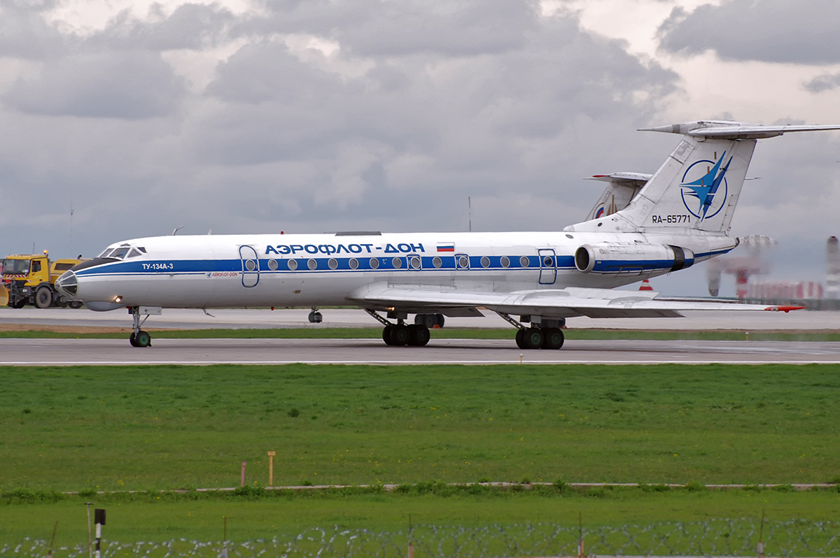 "Aeroflot-Don" Tu-134A-3 RA-65771